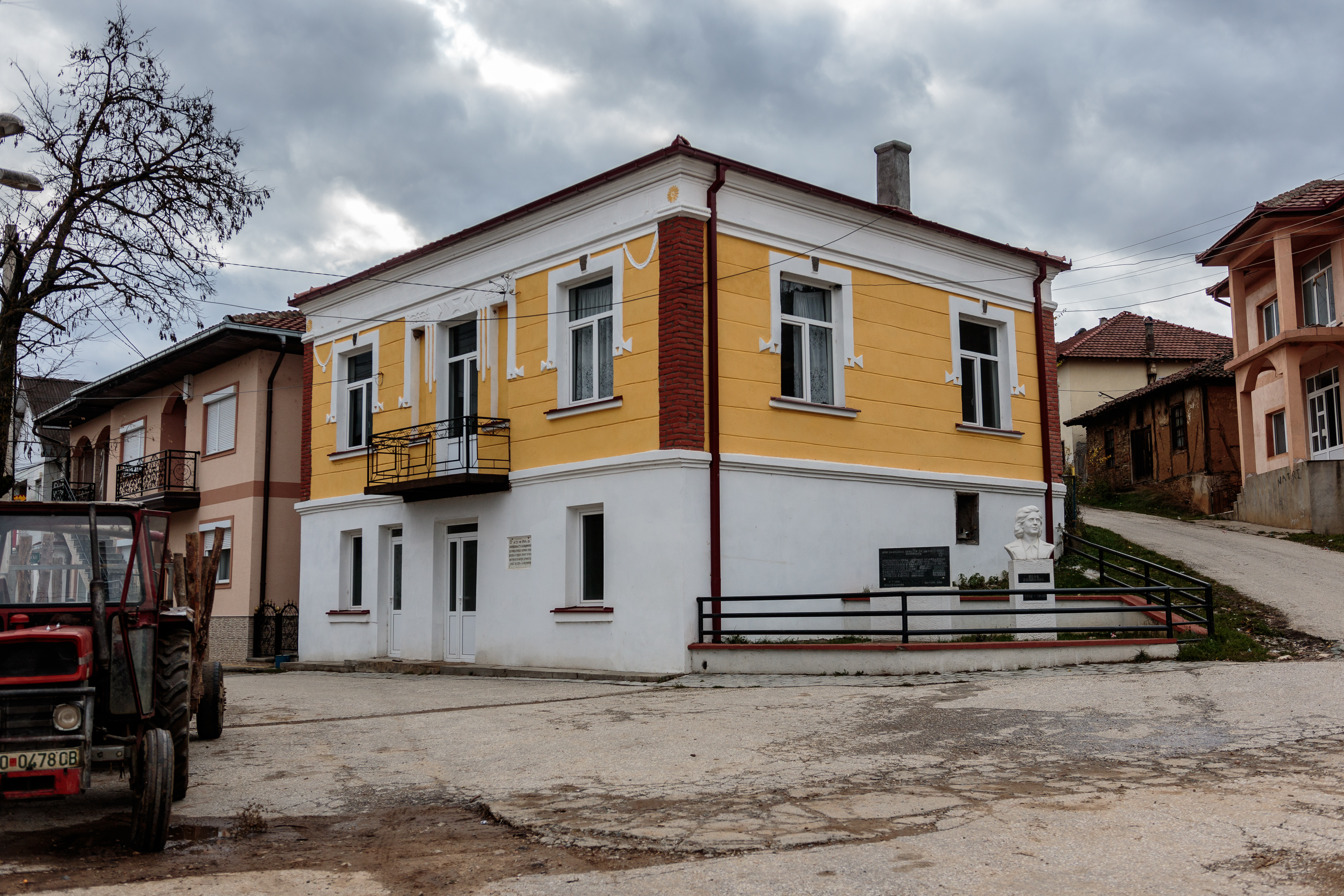 Refurbished building in the village Vladimirovo